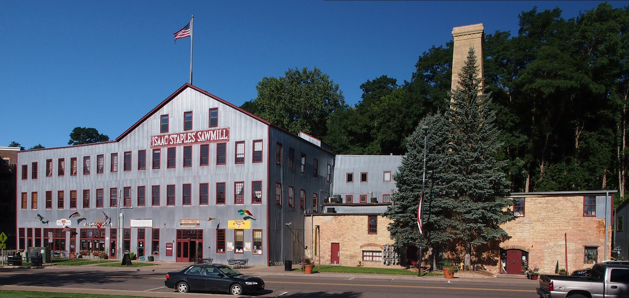 Isaac Staples Sawmill (now a shopping mall), 318 N Main St, Stillwater, Minnesota, USA. Viewed from the east.